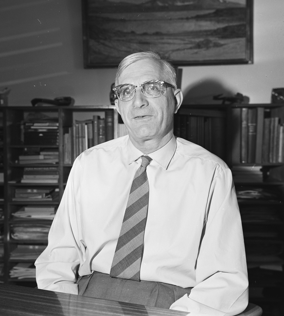 Vebjørn Tandberg was a Norwegian electronics engineer. An alumnus of the Norwegian Institute of Technology, founded Tandbergs Radiofabrikk of Oslo in 1933, and made it a great success.